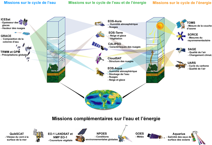 NASA Water and Energy Cycle Missions